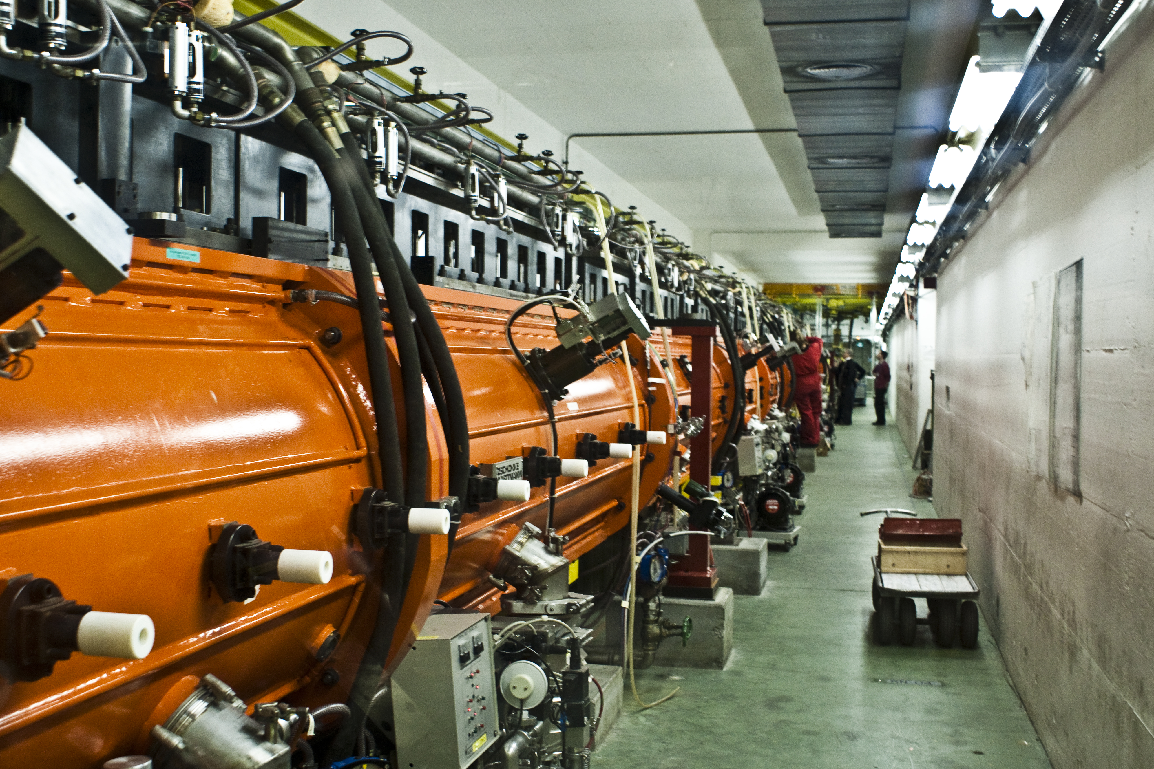 Linear accelerator at CERN.